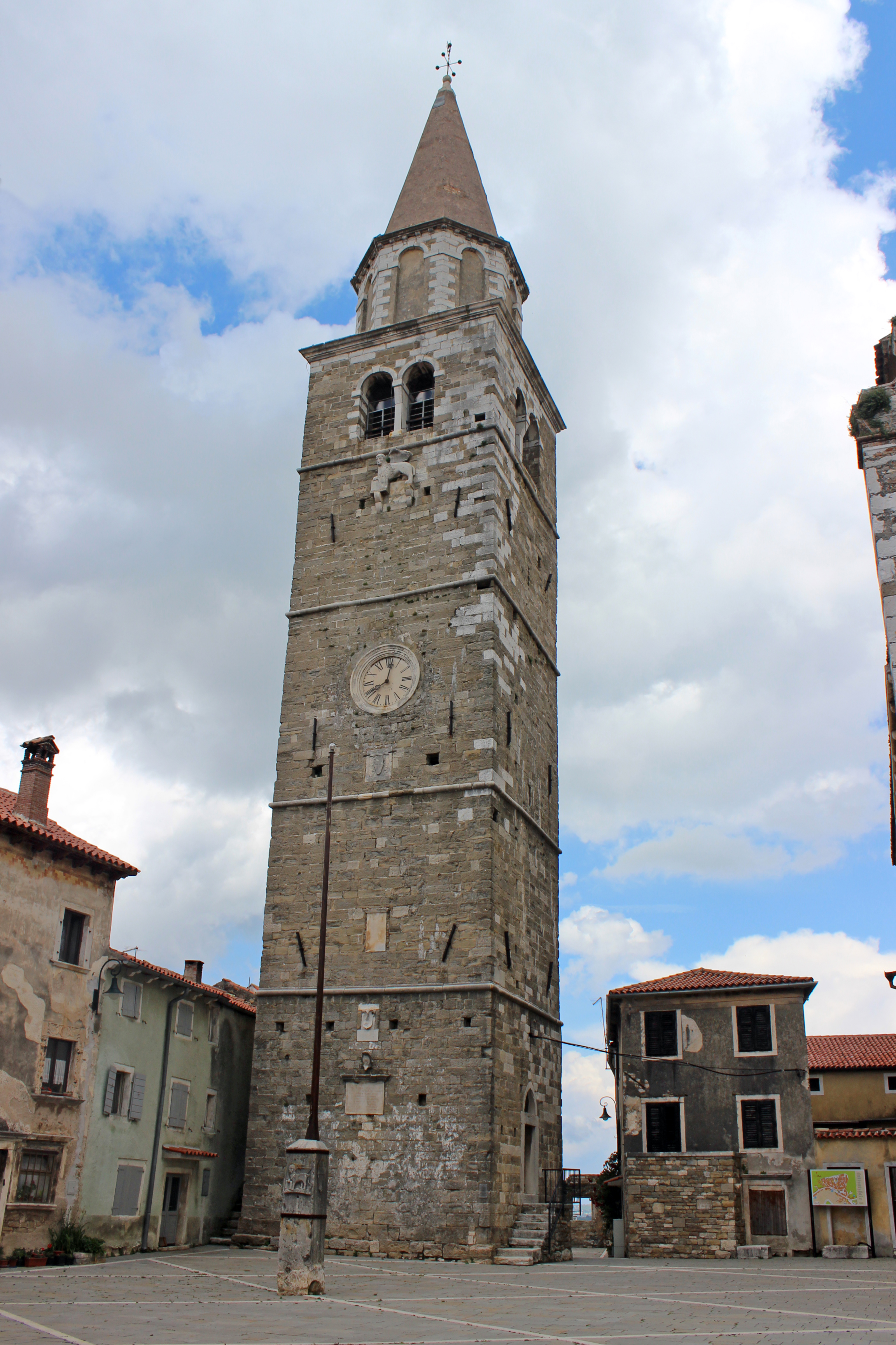 Bell Tower of St. Servulus Church, in the foreground stone base for flagpole. in Buje, Croatia